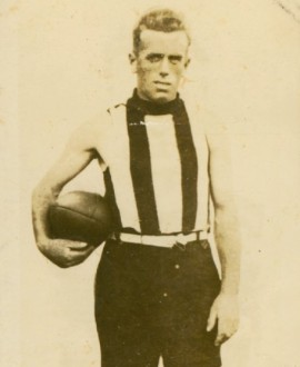 Photograph of Rupe Hannah from 1923-1924